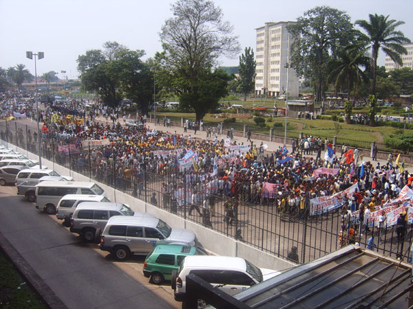 May 31, 2006 photo of Congolese citizens demonstrating in Kinshasa for elections on July 30, and against any delay.